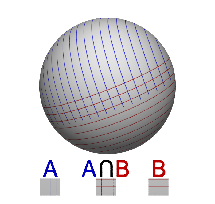 A covering of a sphere by two overlapping (slightly more than) hemispheres and their intersection using striped patterns for clarity.